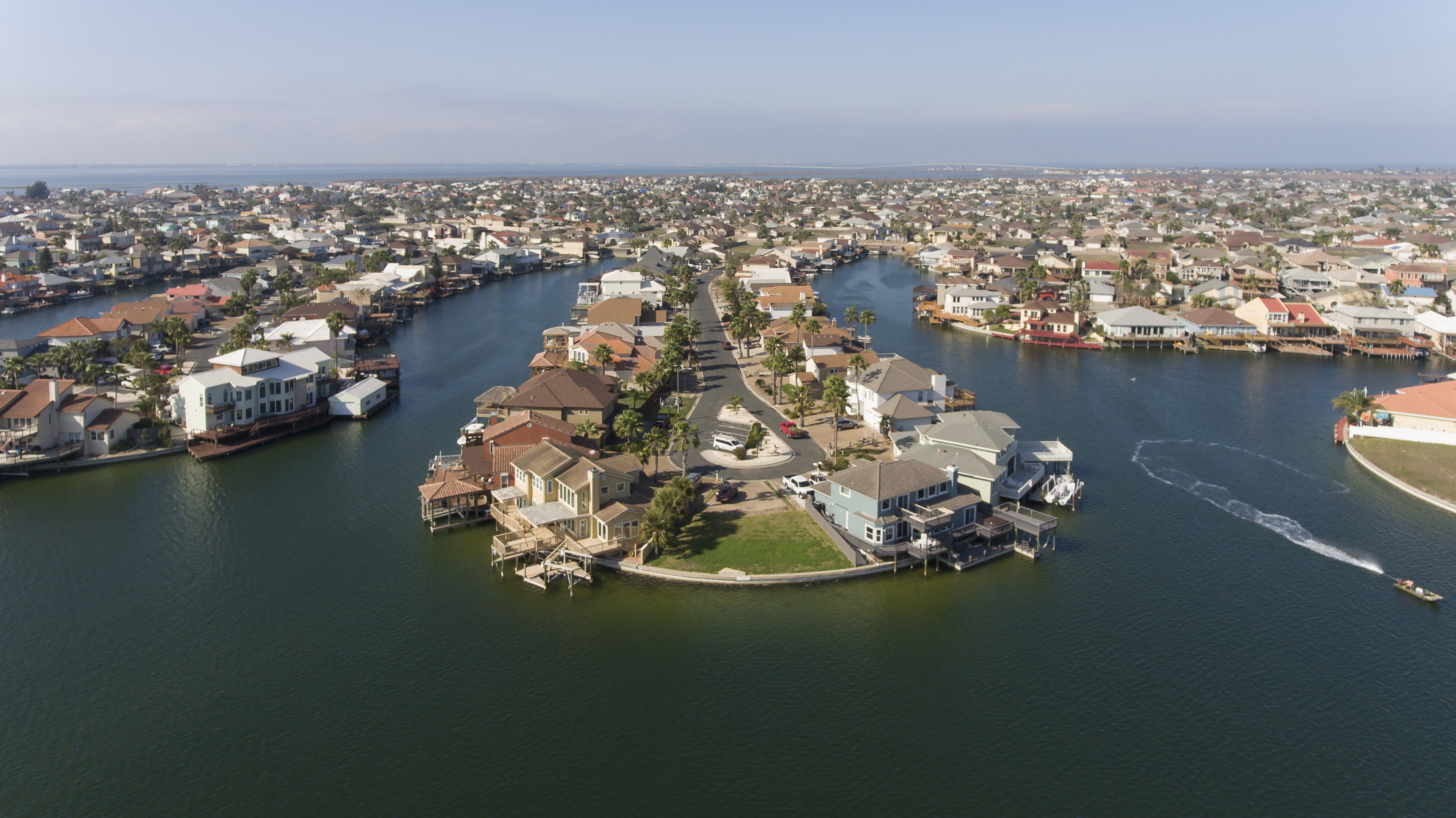 An aerial photo of a residential neighborhood on Padre Island